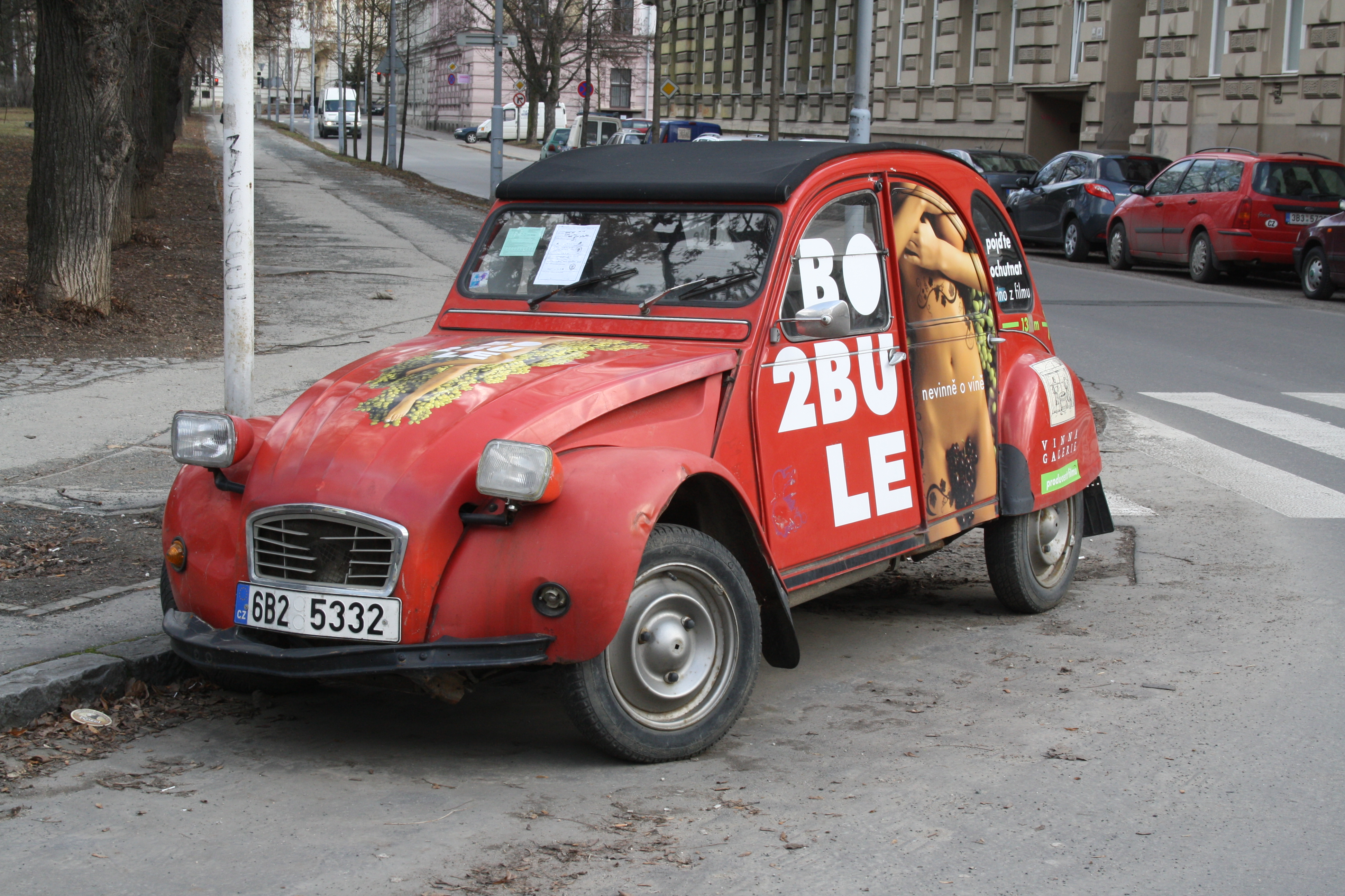 Advertisement car in Brno - film 2Bobule.